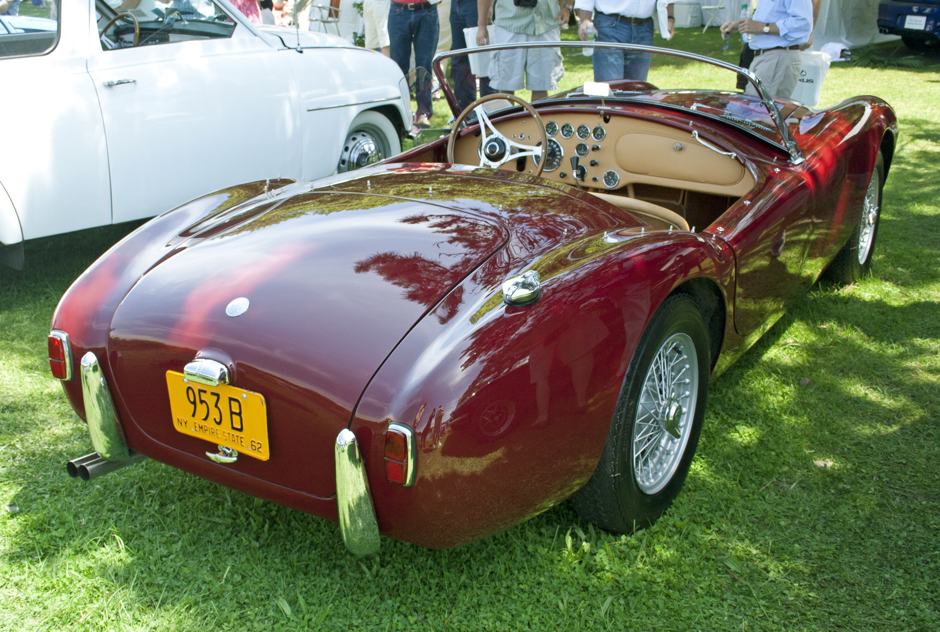 1962 AC Ace 2.6 Ruddspeed at the 2012 Greenwich Concours d'Elegance. Only 37 of these Ford Zephyr-engined Aces were built, as it was quickly superceded by the V8-engined Cobra. The Ace 2.6 also received a smaller grille, which was retained for the 289 Cobra.